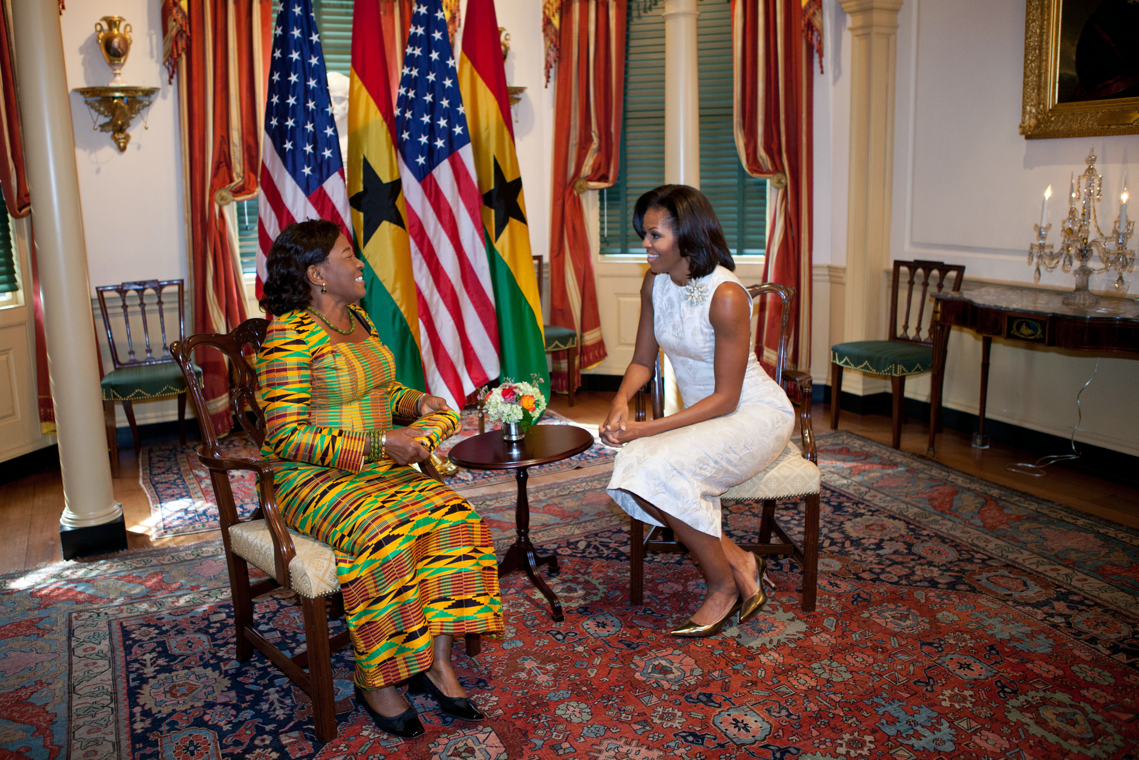 First Lady of Ghana Ernestina Naadu Mills meets United States First Lady Michelle Obama at the State Department in Washington, D.C., on 8 March 2012